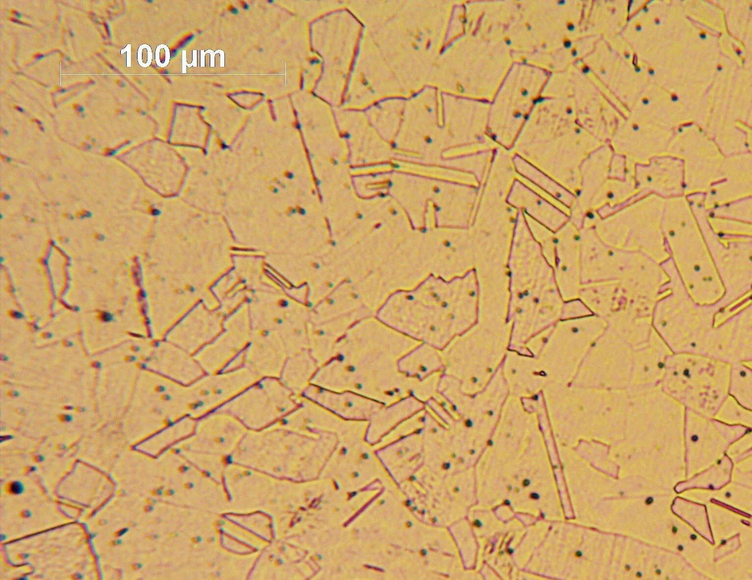 Austenitic structure of a SAE 304 (Cr Ni 18 10) steel